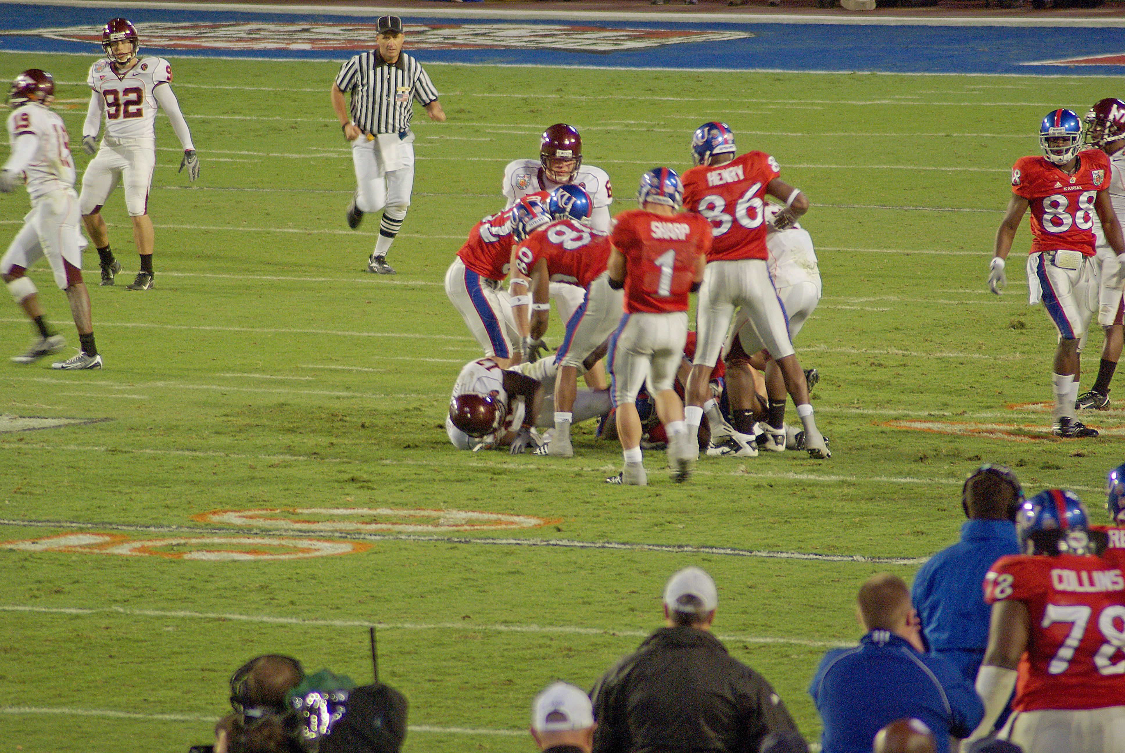 Kansas recovers Virginia Tech's onside kick in the fourth quarter of the 2008 Orange Bowl.